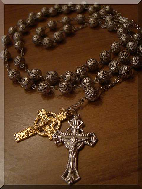 Coptic crosses